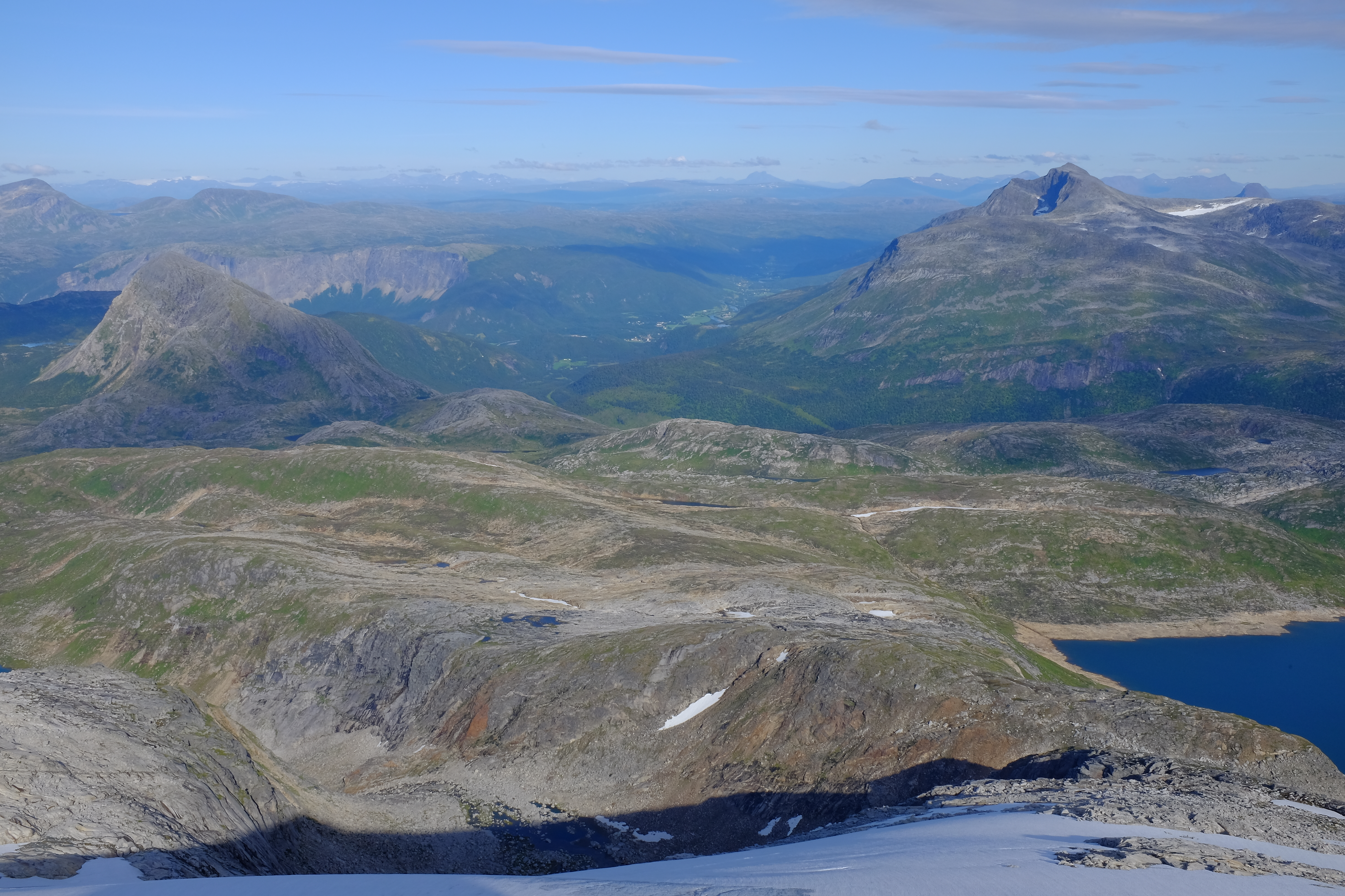 View from Memaurtinden towards Beiarn and Høgtinden mountain, Beiarn, Nordland, Norway.